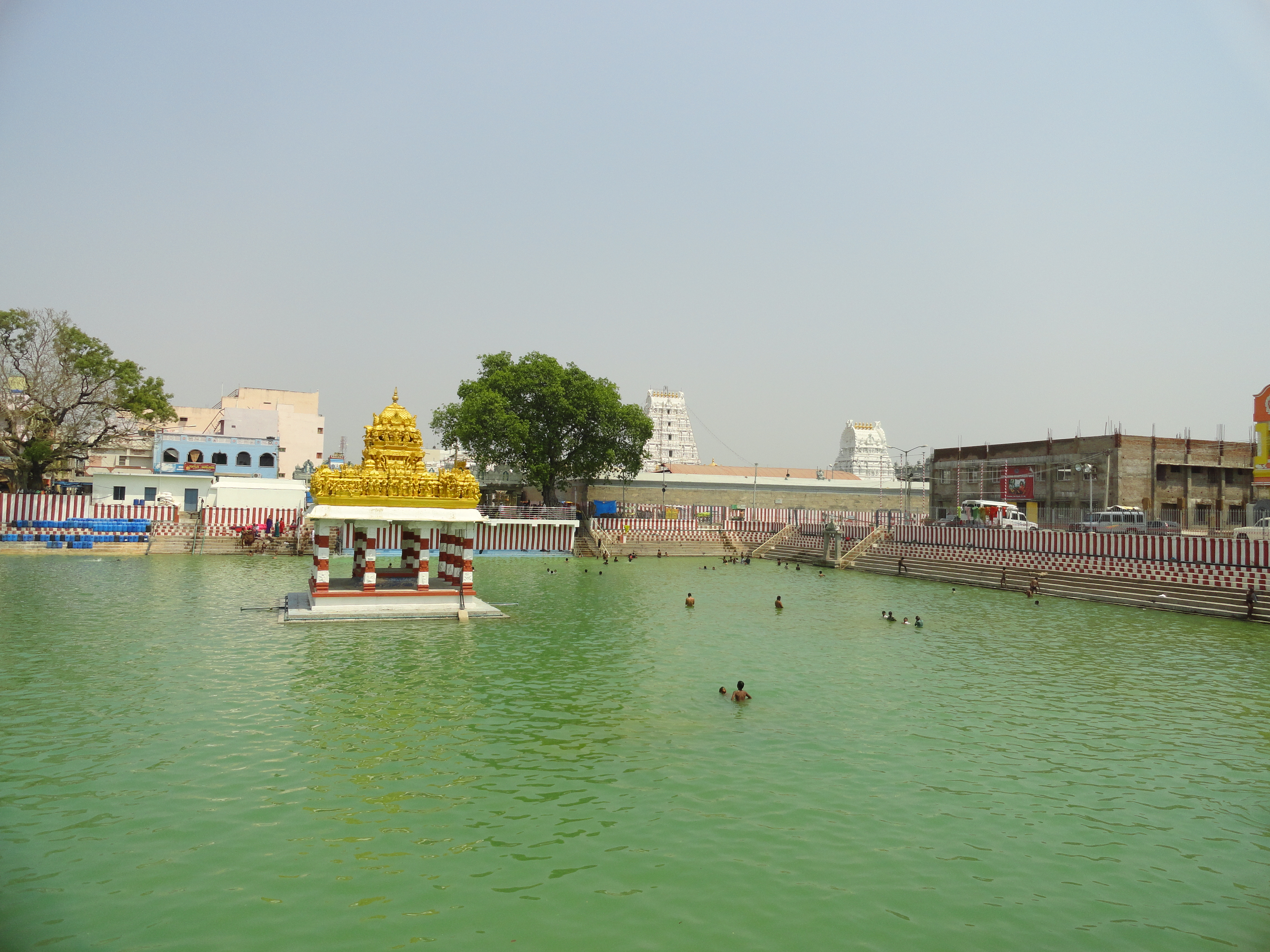 This is sacred pond at Tirucaanuru of Tirupati.